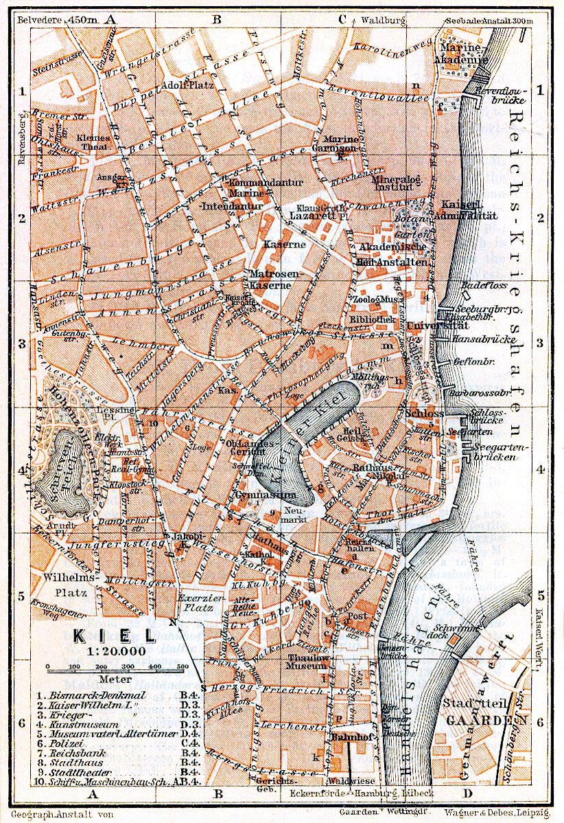 City map of Kiel, Germany, 1910